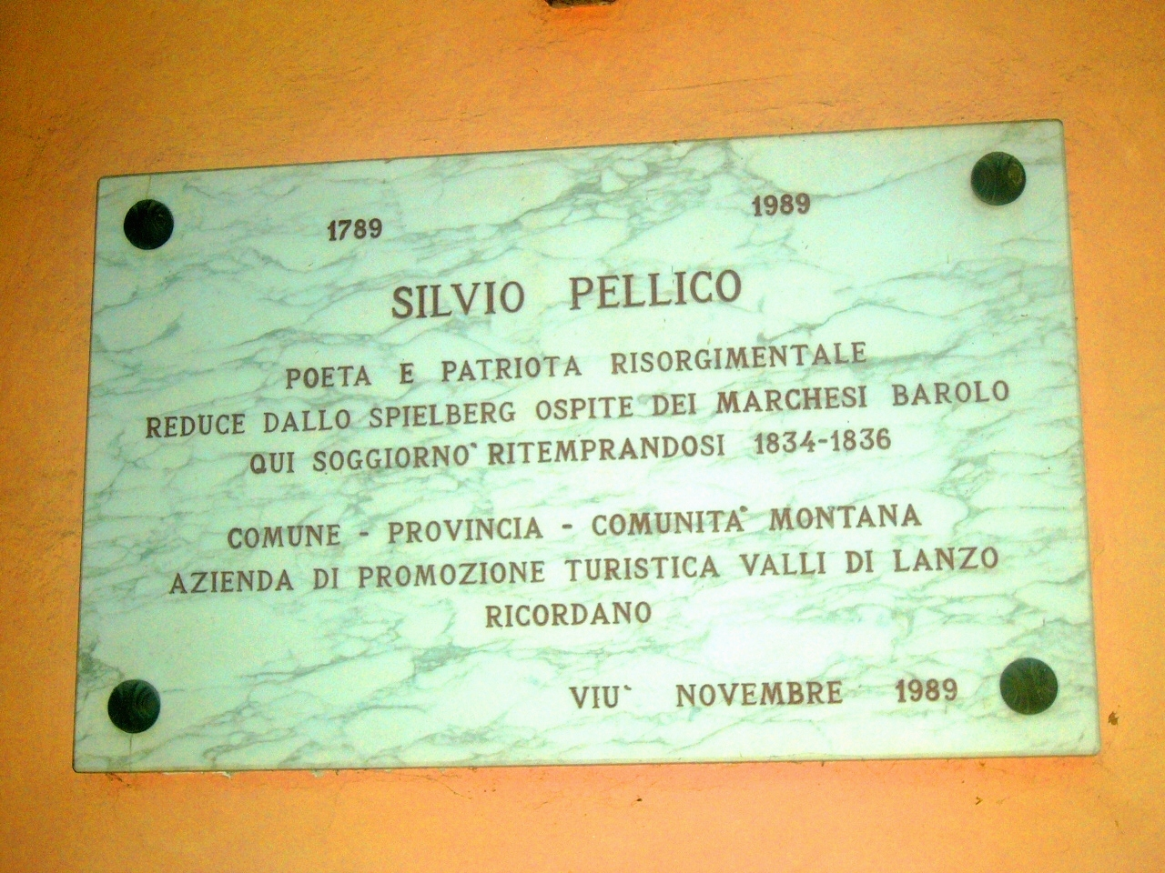 The photo shows a plaque certifying the Silvio Pellico permanence at Villa Schiari Viù (Turin).